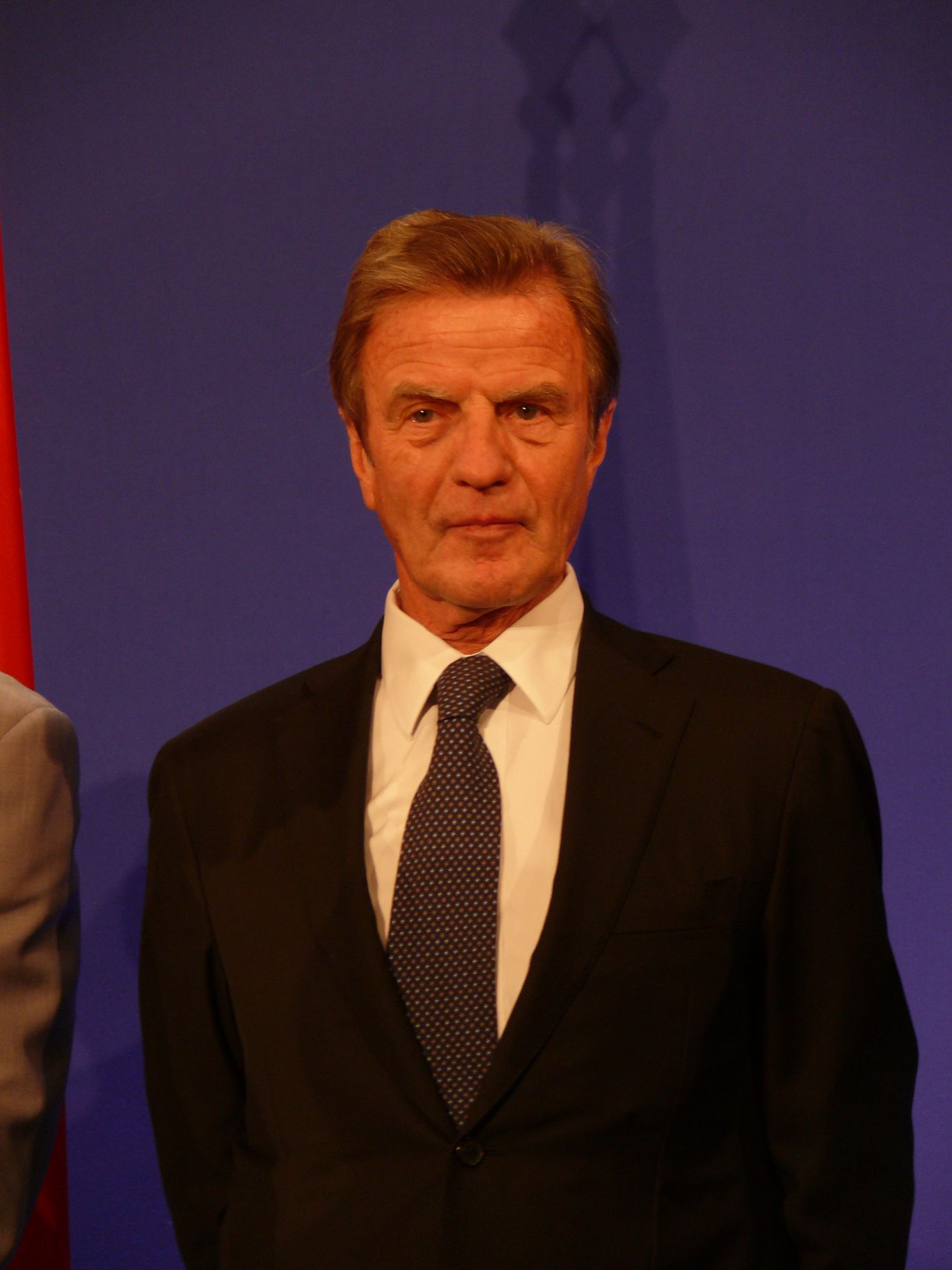 Meeting by President Nicolas Sarkozy on April 30th 2010 at Hyatt on the Bund Hotel in Shanghai (China)